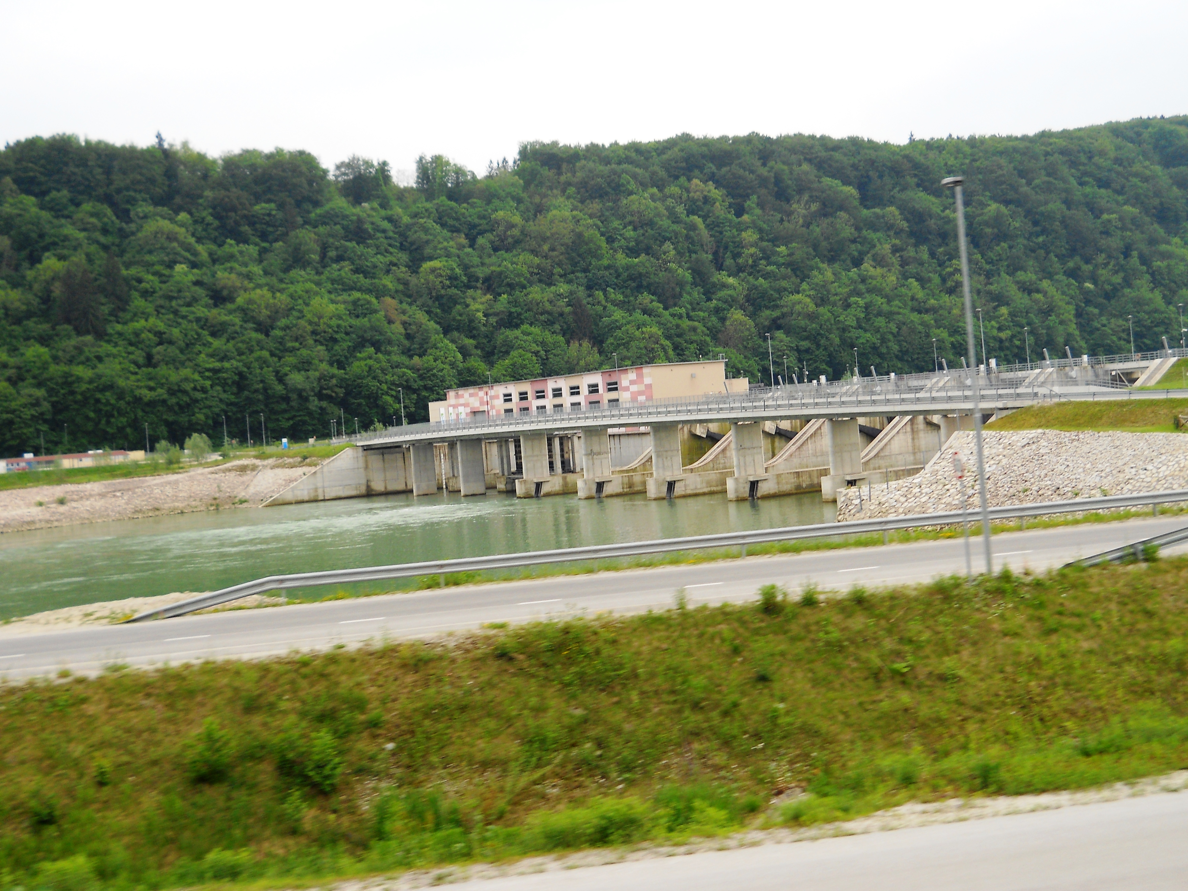 The hydroelectric power plant Blanca, Sevnica, Slovenia. The photo is taken from a train.